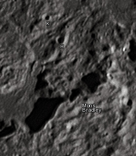 Mons Bradley lunar crater as seen from Earth with satellite craters labeled